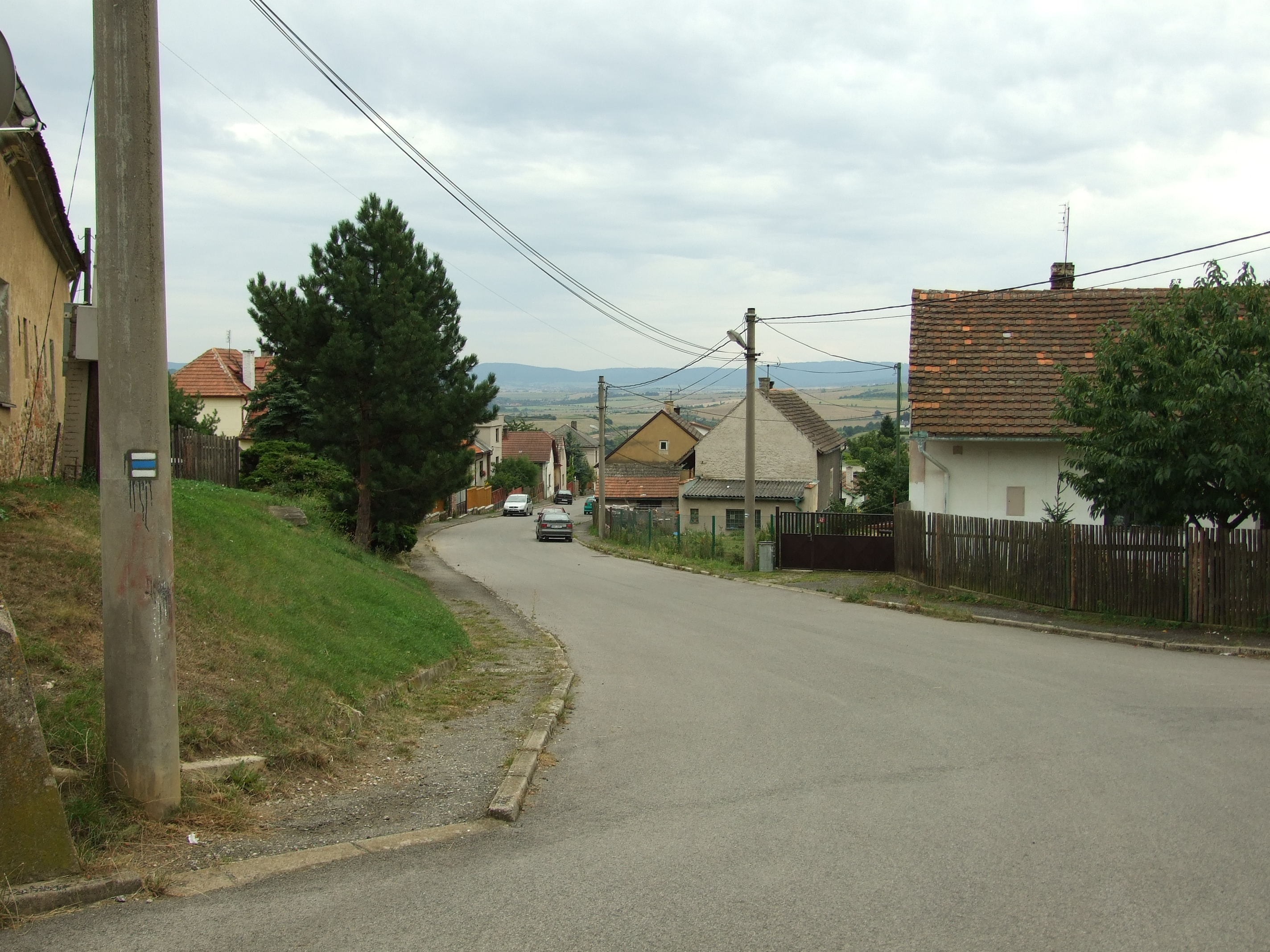 Knížkovice, part of Zdice town in Central Bohemian Region, CZhelp This photograph was taken within the scope of the 'Czech Municipalities Photographs' grant.